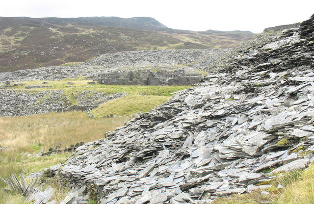 The 'village' at Rhiwbach Quarry